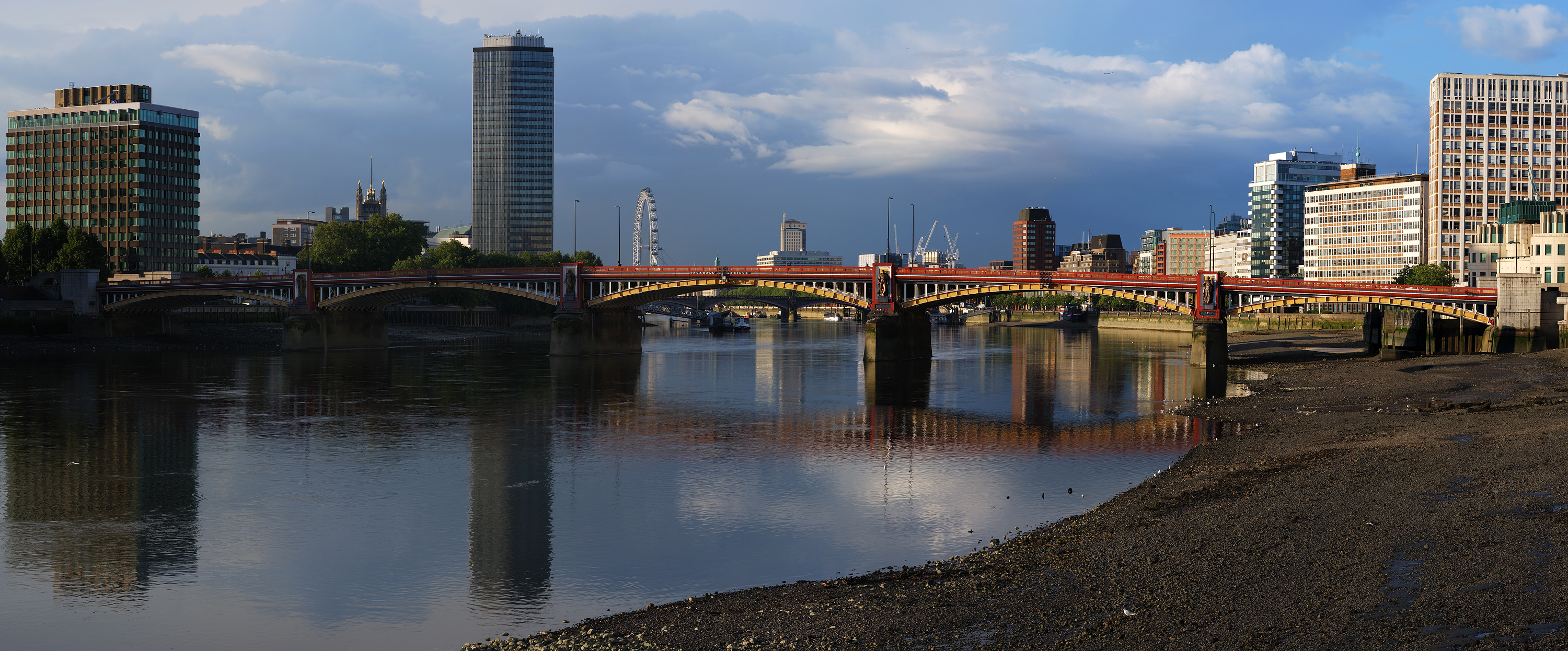 Panorama of Vauxhall Bridge, London taken at sunset from the South embankment. The panorama is stitched from 2x5 photographs.